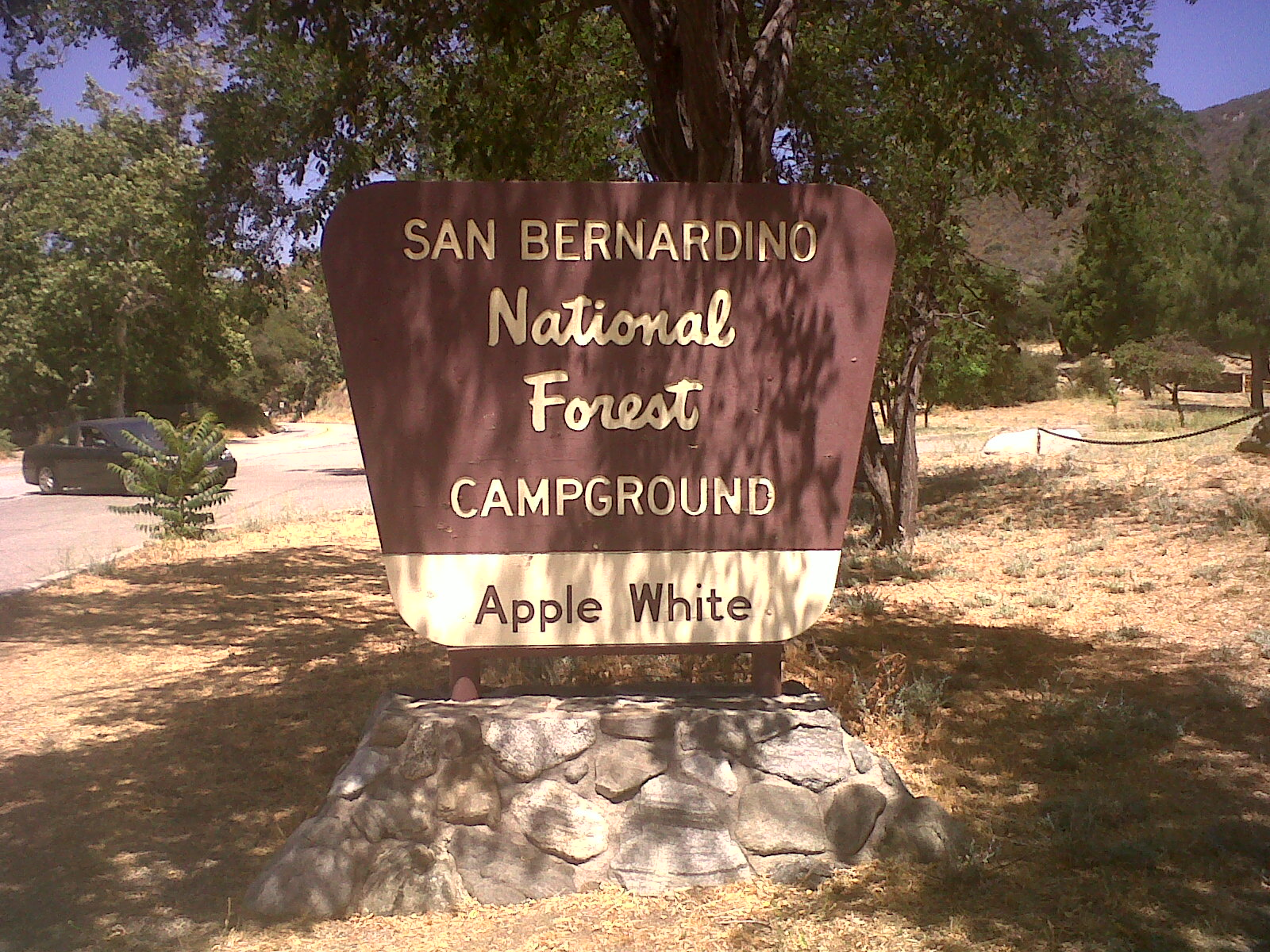 San Bernadino Naional Forest campground sign in Lytle Creek, California.